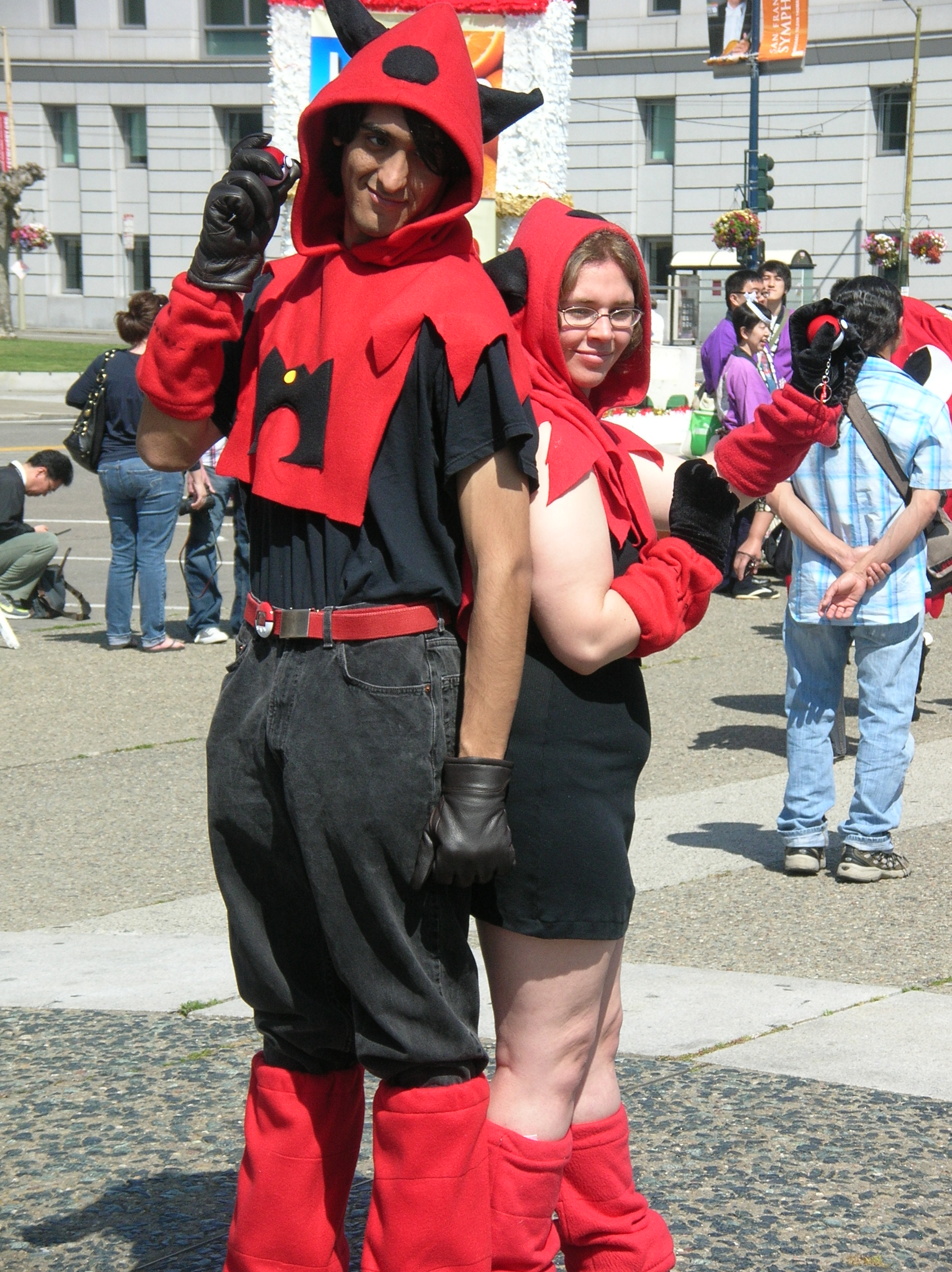 Cosplayers portraying Team Magma from Pokémon competing in the anime costume contest at the 2010 Northern California Cherry Blossom Festival.